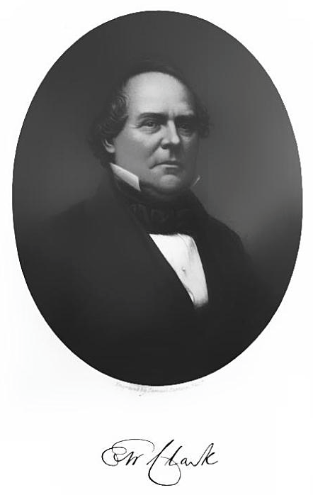 Portrait of Enoch White Clark (1802-1856), banker, founder of E.W. Clark & Co., and one of the richest men in Philadelphia at his death.